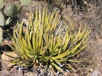 Agave lechuguilla — Lechuguilla In Big Bend National Park, southwestern Texas.